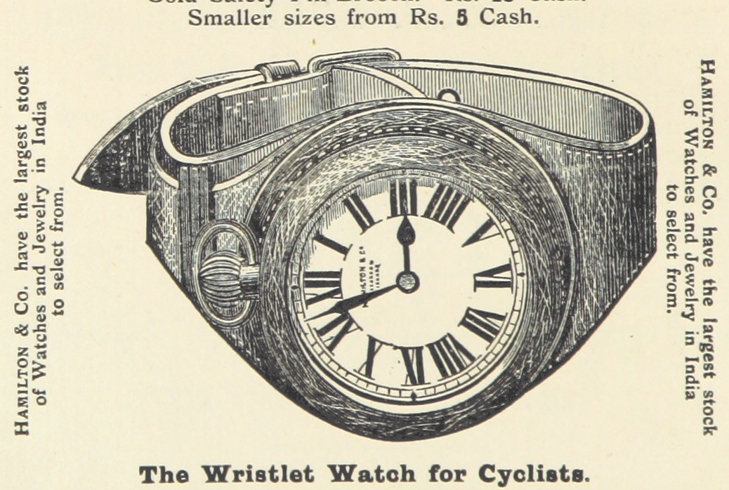 Image taken from: Title: "Cycling in Bengal, a guide to practical tours ... The official handbook of the Bengal Cyclists Association. [With a map.]" Author: BURKE, W. S. - of the Bengal Cyclists' Association Shelfmark: "British Library HMNTS 10058.de.17." Page: 10 Place of Publishing: Calcutta Date of Publishing: 1898 Publisher: W. Newman & Co. Issuance: monographic Identifier: 000538240 Explore: Find this item in the British Library catalogue, 'Explore'. Download the PDF for this book (volume: 0) Image found on book scan 10 (NB not necessarily a page number) Download the OCR-derived text for this volume: (plain text) or (json) Click here to see all the illustrations in this book and click here to browse other illustrations published in books in the same year. Order a higher quality version from here.